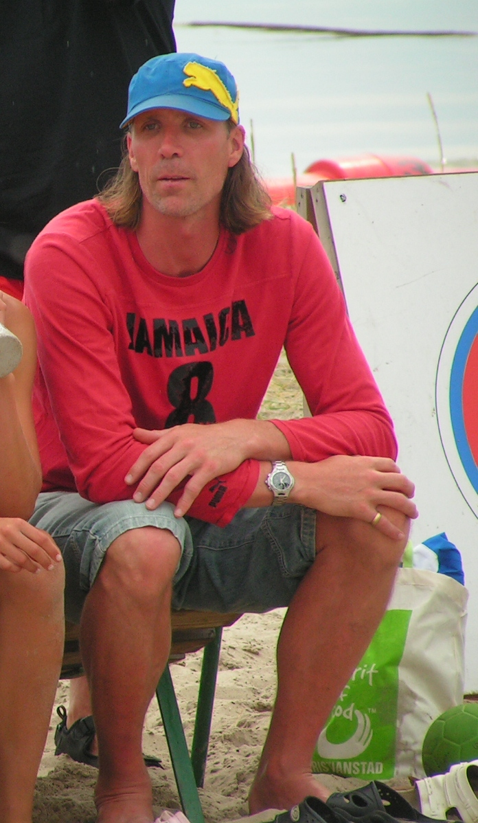 Staffan Olsson, handball player from Sweden on Åhus Beachhandball Festival